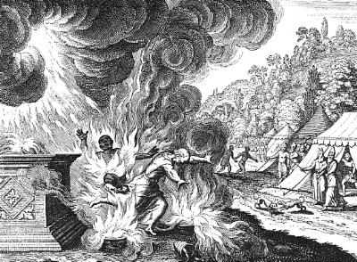 Aaron's Sons, Nadab and Abihu, Destroyed by Fire; Leviticus 10:2; 1625-30 engraving by Matthäus Merian